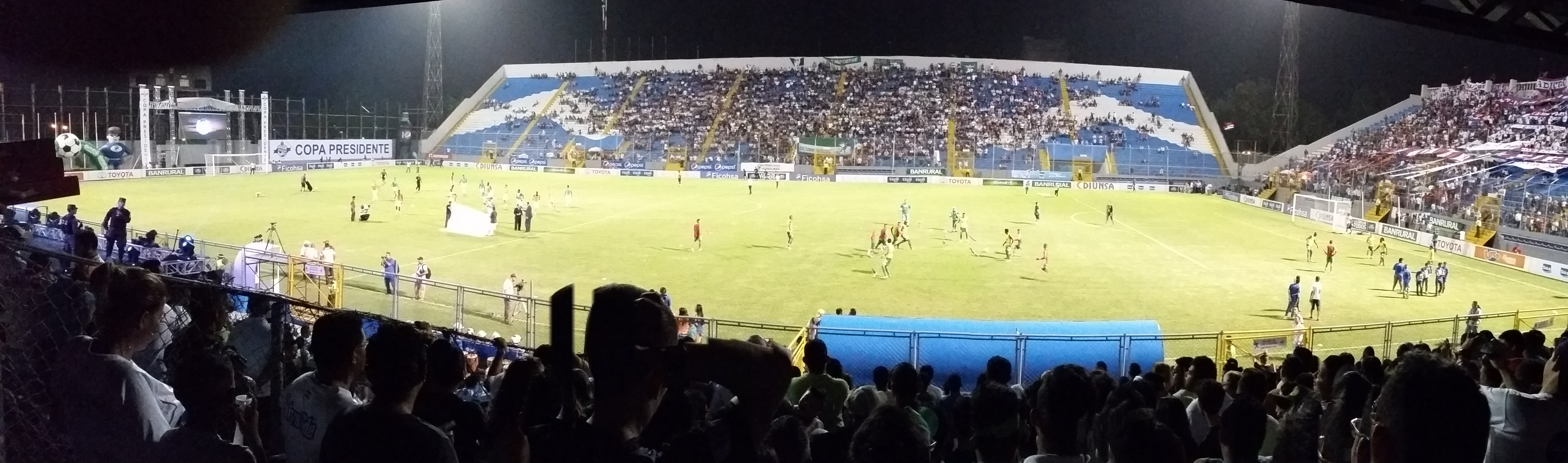 Stadium Francisco Morazan In San Pedro Sula 2015